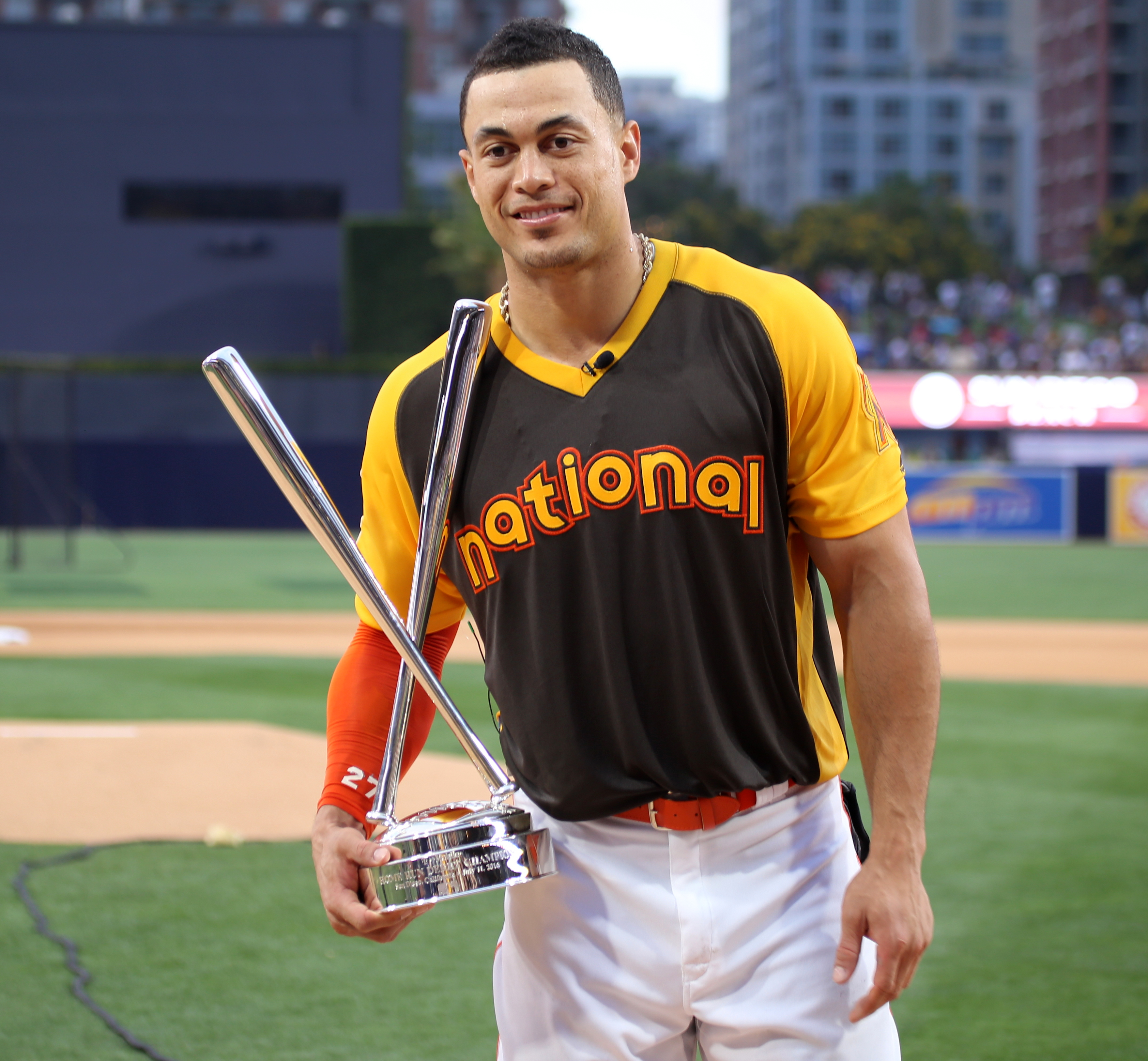 Giancarlo Stanton holds up the T-Mobile #HRDerby trophy.